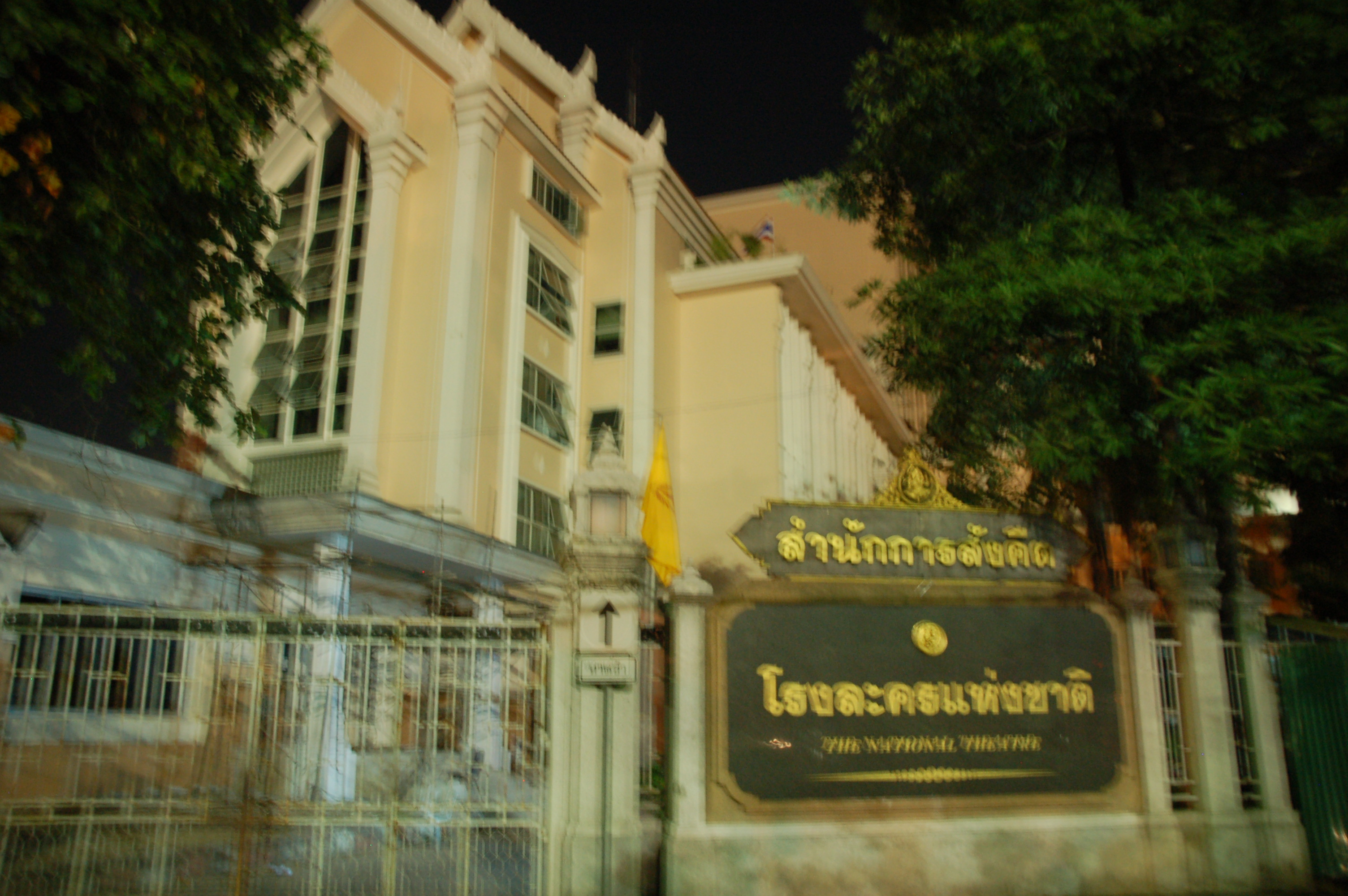 The National Theatre in Bangkok (โรงละครแห่งชาติ)